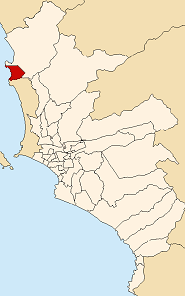 Map of Lima highlighting the Santa Rosa district in northern Lima.